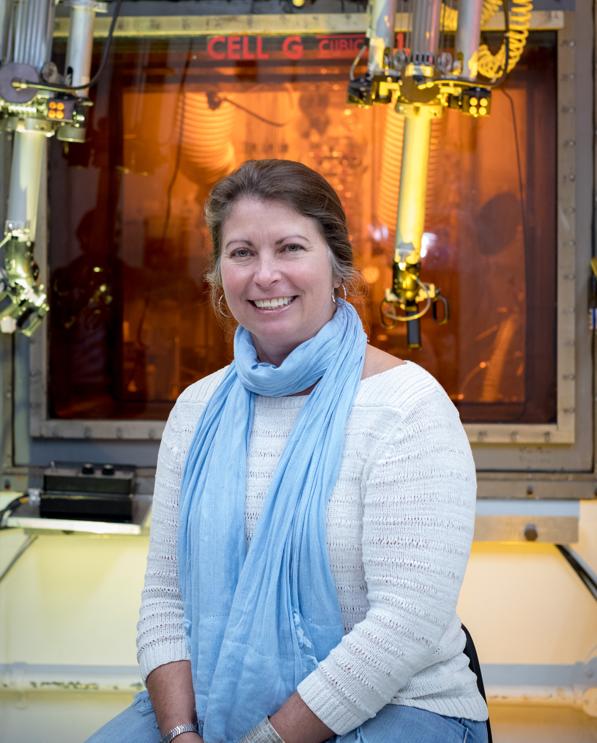 American nuclear engineer Julie Ezold, manager for the californium-252 program at ORNL, Oak Ridge National Laboratory.